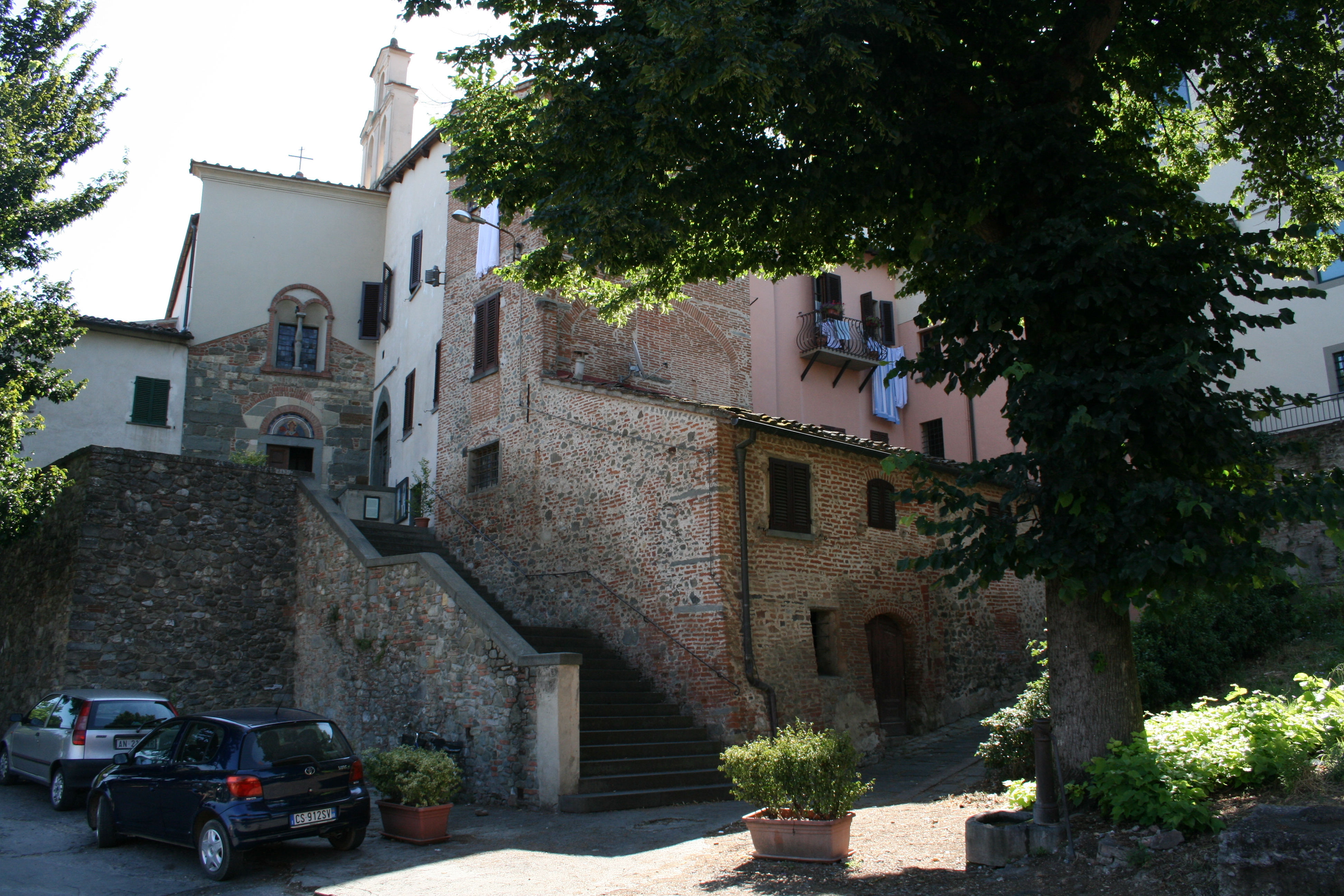 The Monastery of La Ginestra in Montevarchi